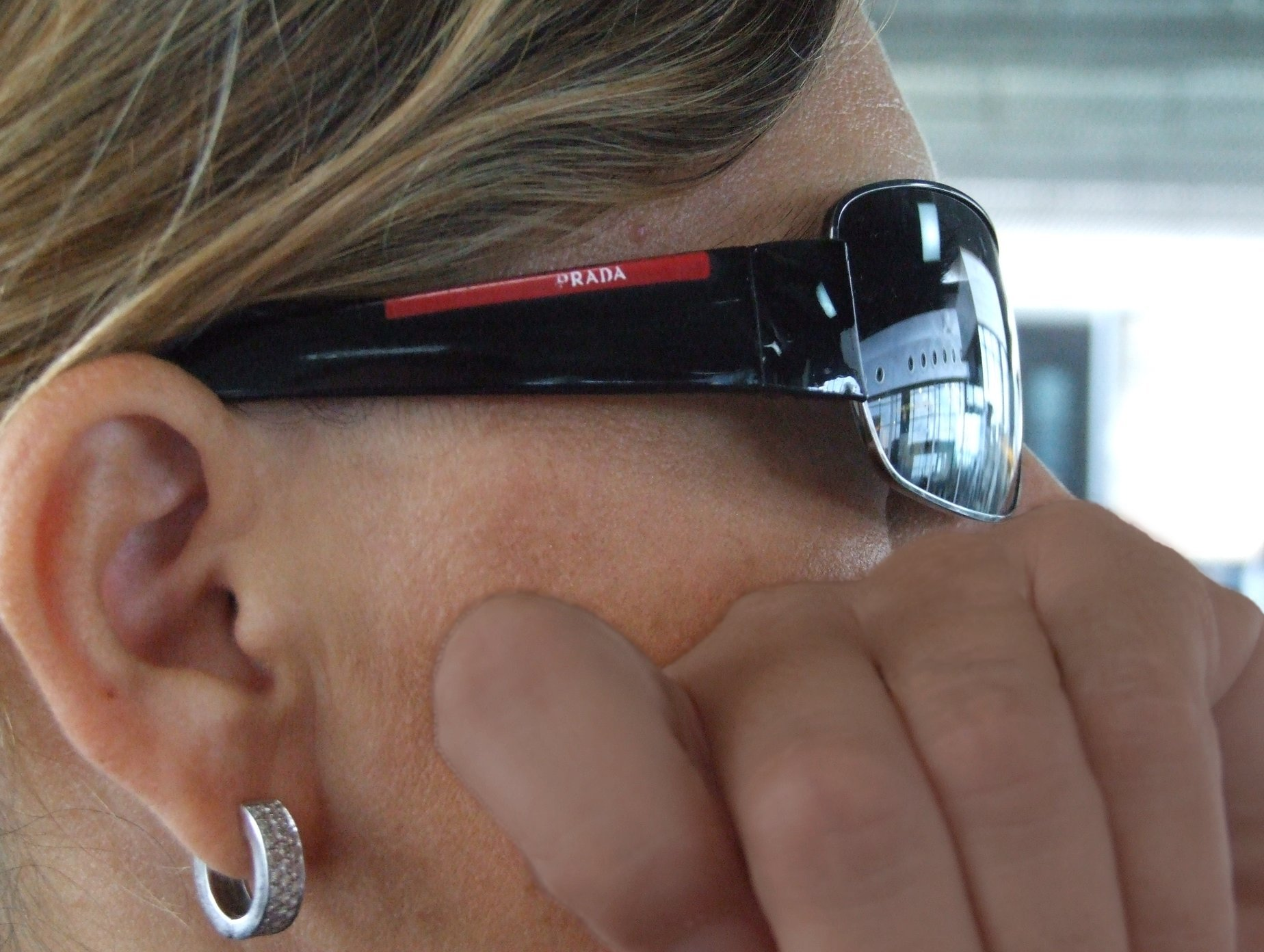 Summertime Mazzeo Taormina Italy